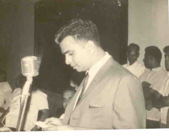 P.V. Ramanayya Raja, businessman and philanthropist, managing trustee of Raja Lakshmi Foundation, Chennai, India